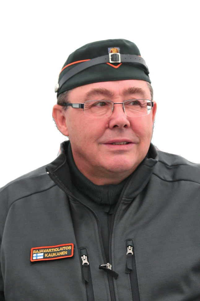 Finnish Lt. General Jaakko Kaukanen